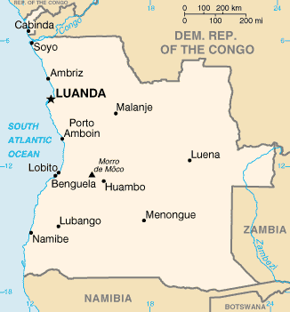 Angola map from CIA World Factbook, converted from original GIF format